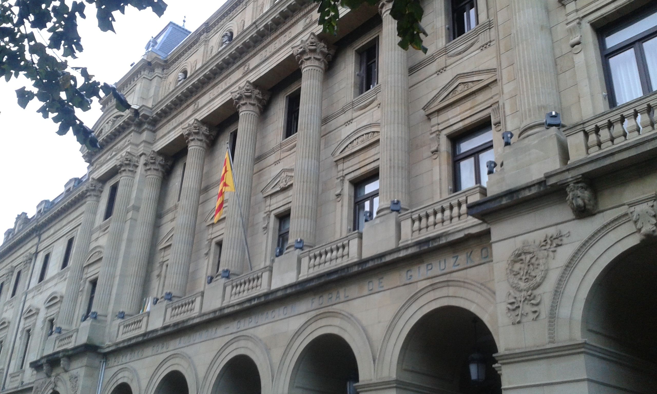 Catalan independence flag hoisted on the Gipuzkoa Regional Govt headquarters, Donostia (Basque Country) during the 9-N votation (2014)